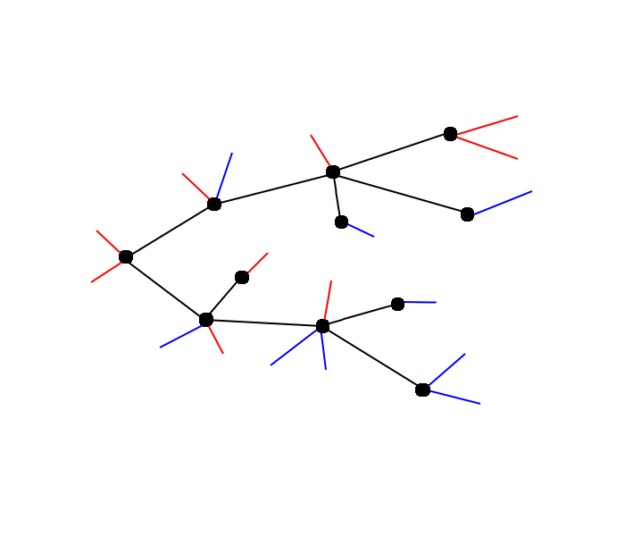 A blossom tree with the red half-edges being opening stems and the blue half edges being closing stems